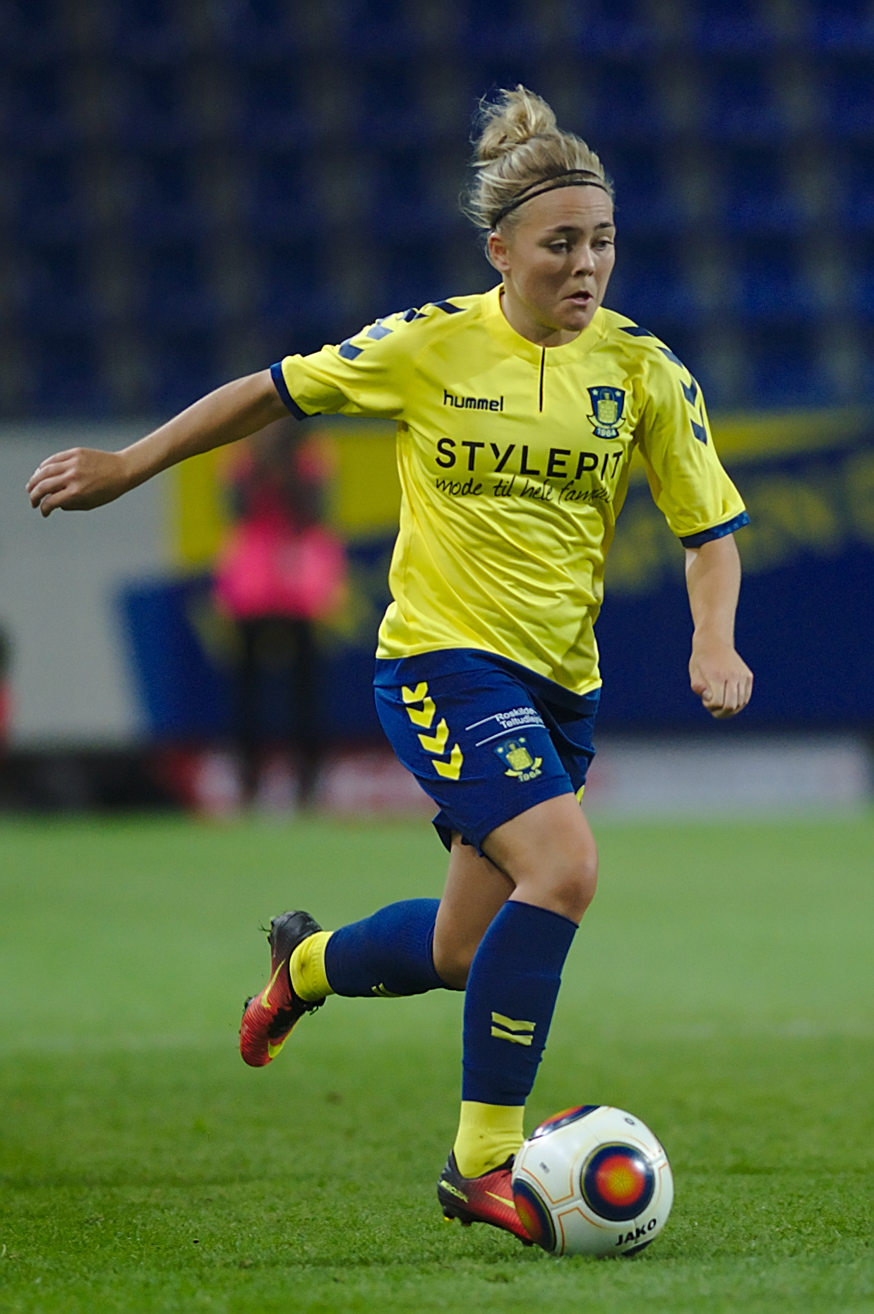 UEFA Women's Champions League Round of 32, SKN St. Pölten vs Brøndby IF am 5.10.2016. Bild zeigt Nanna Christiansen (Brøndby).